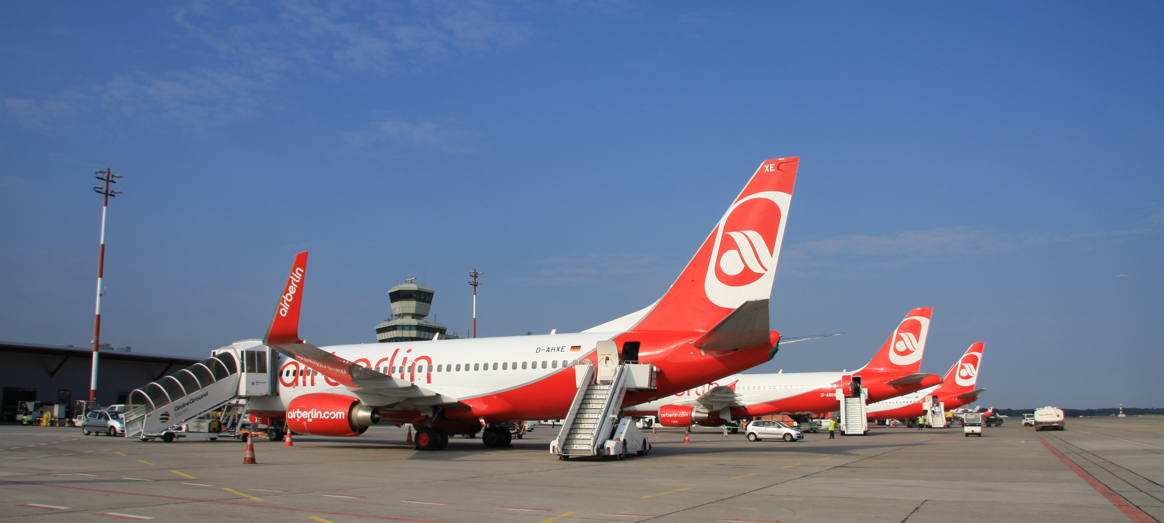 Airport Berlin Tegel, Air Berlin Aircraft